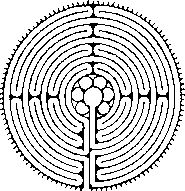 Labyrinth from the Middle Ages